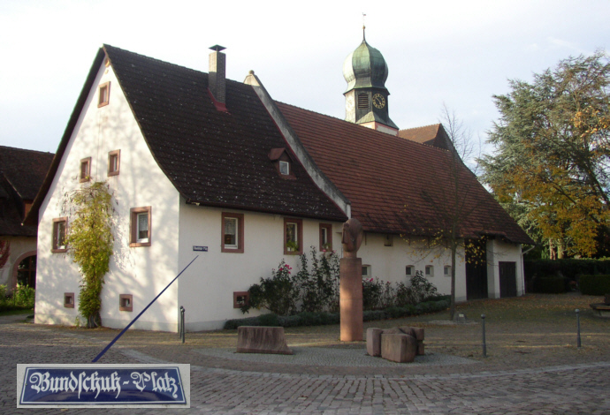 The Bundschuh Platz (Bundschuh square) in Lehen in Breisgau remembers to peasants' rebellions in 1513.